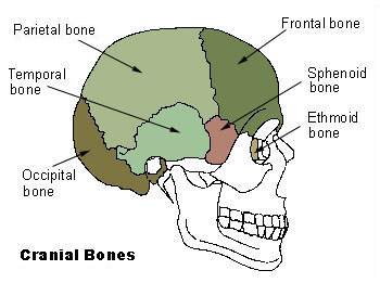 This is a corrected version of an image file already in the wikimedia library. A typo was corrected: The label "prietal bone" was changed to "parietal bone"